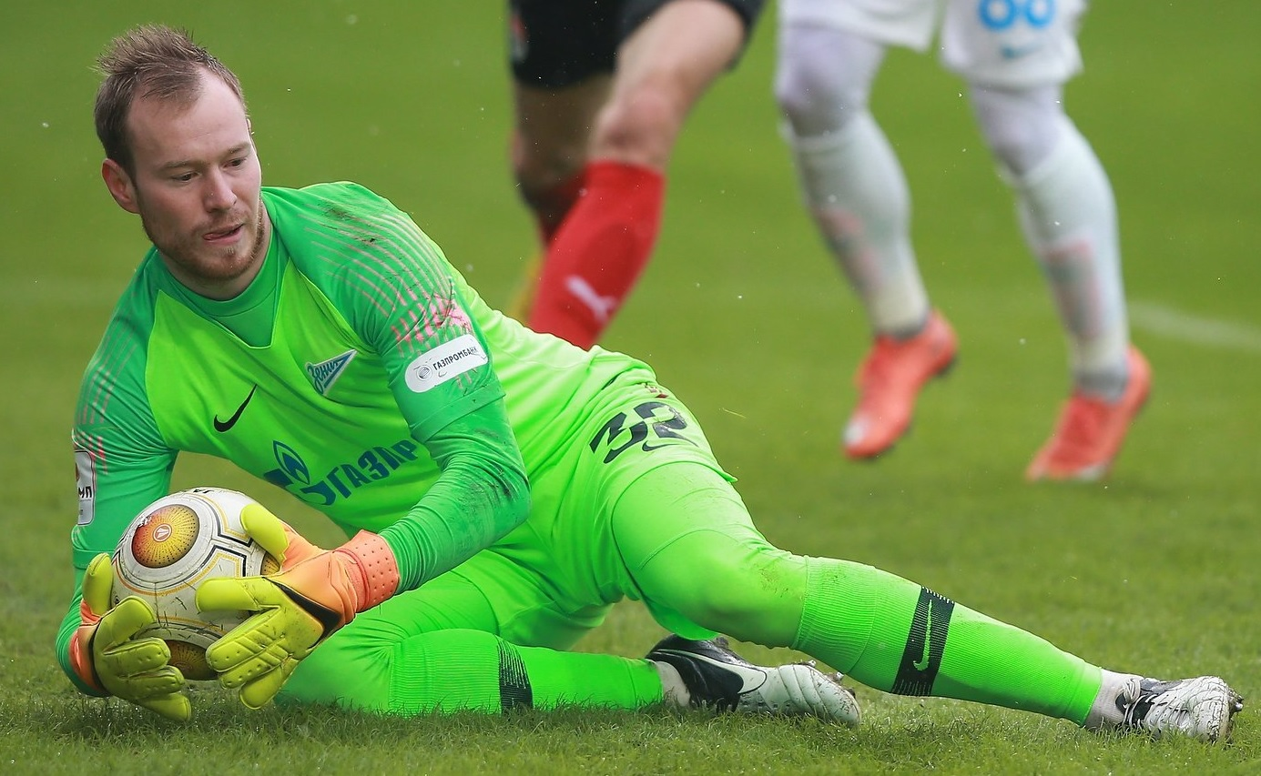 Aleksei Gorodovoy with FC Zenit-2 Saint Petersburg in a game against FC Khimki.